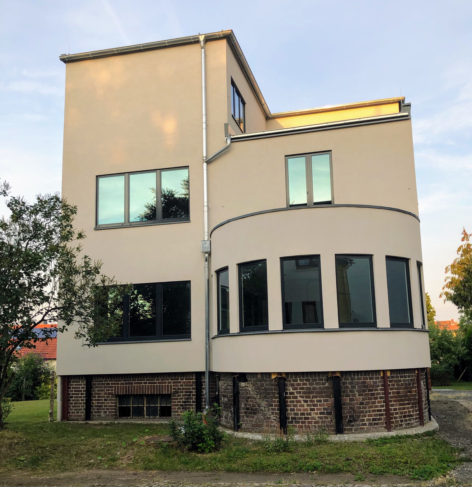 Breitscheidstraße 23, Quedlinburg in August 2020